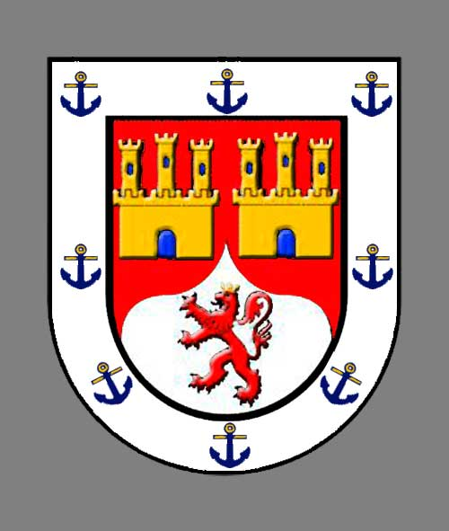 Coat of Arms of the Admirals of Castile, los Enríquez.